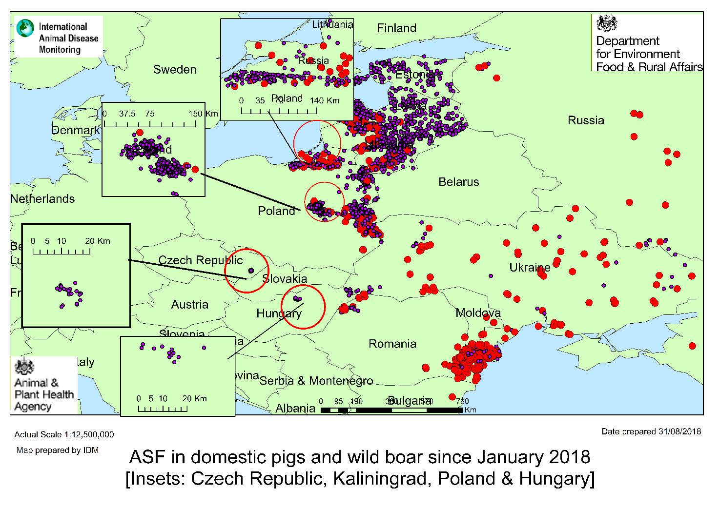 African Swine fever in Eastern Europe. Updated Outbreak Assessment 17, 31 August 2018